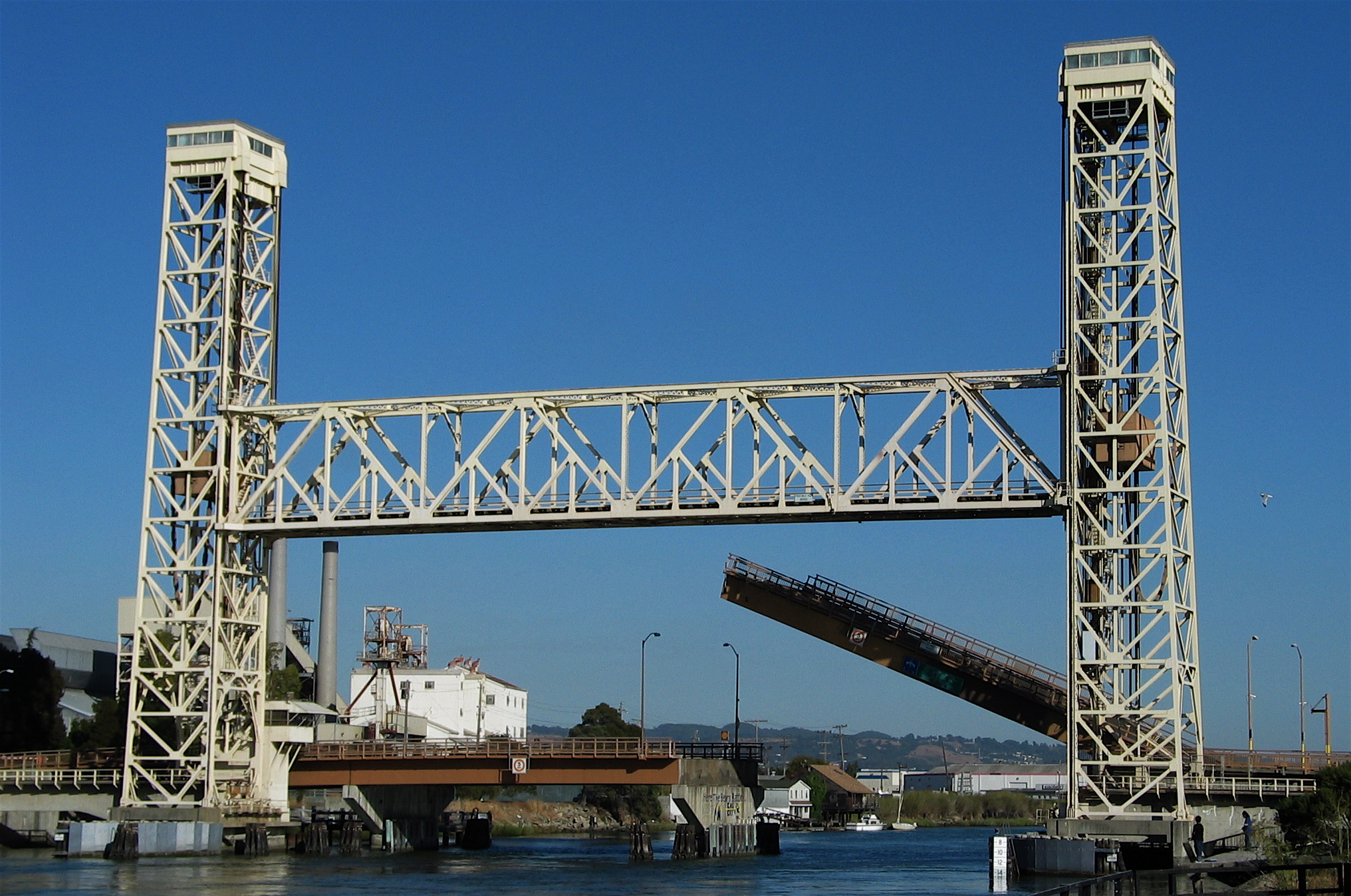 The former Alameda Belt Line railway lift bridge, in Alameda, California, with one leaf of the adjacent Fruitvale Avenue Bridge's double-leaf bascule span partially raised in the background. Photo taken from behind the Blanding shopping mall.